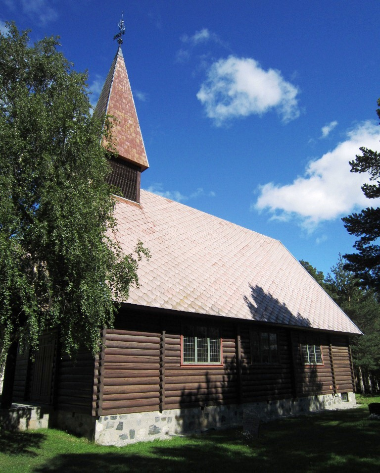 Lesjaverk church